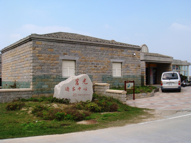 Tourist information center, Dongju.